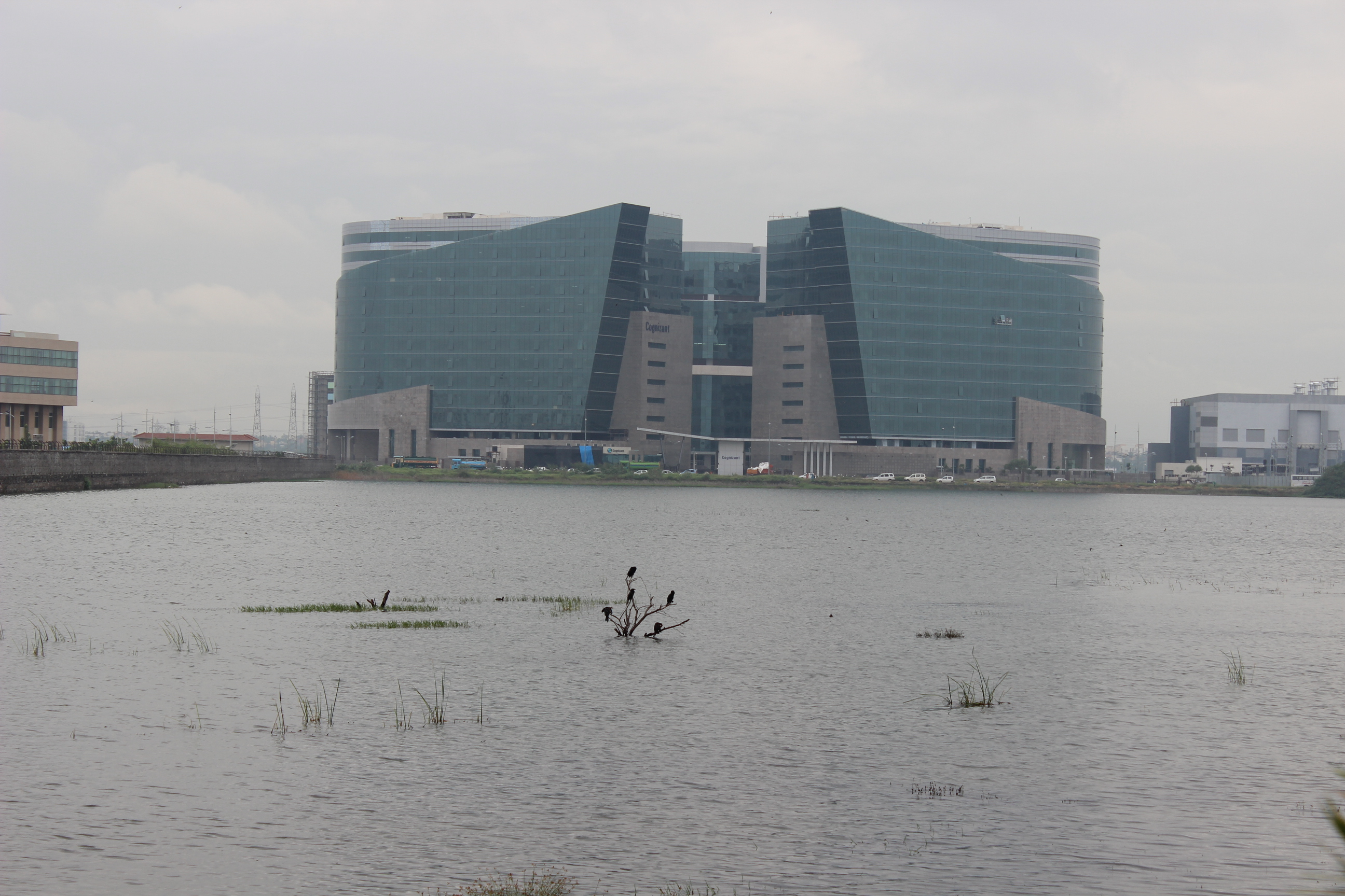 The cognizant Towers located near the pallikaranai marshlands.